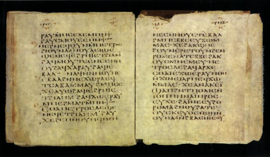 page 157 of the codex